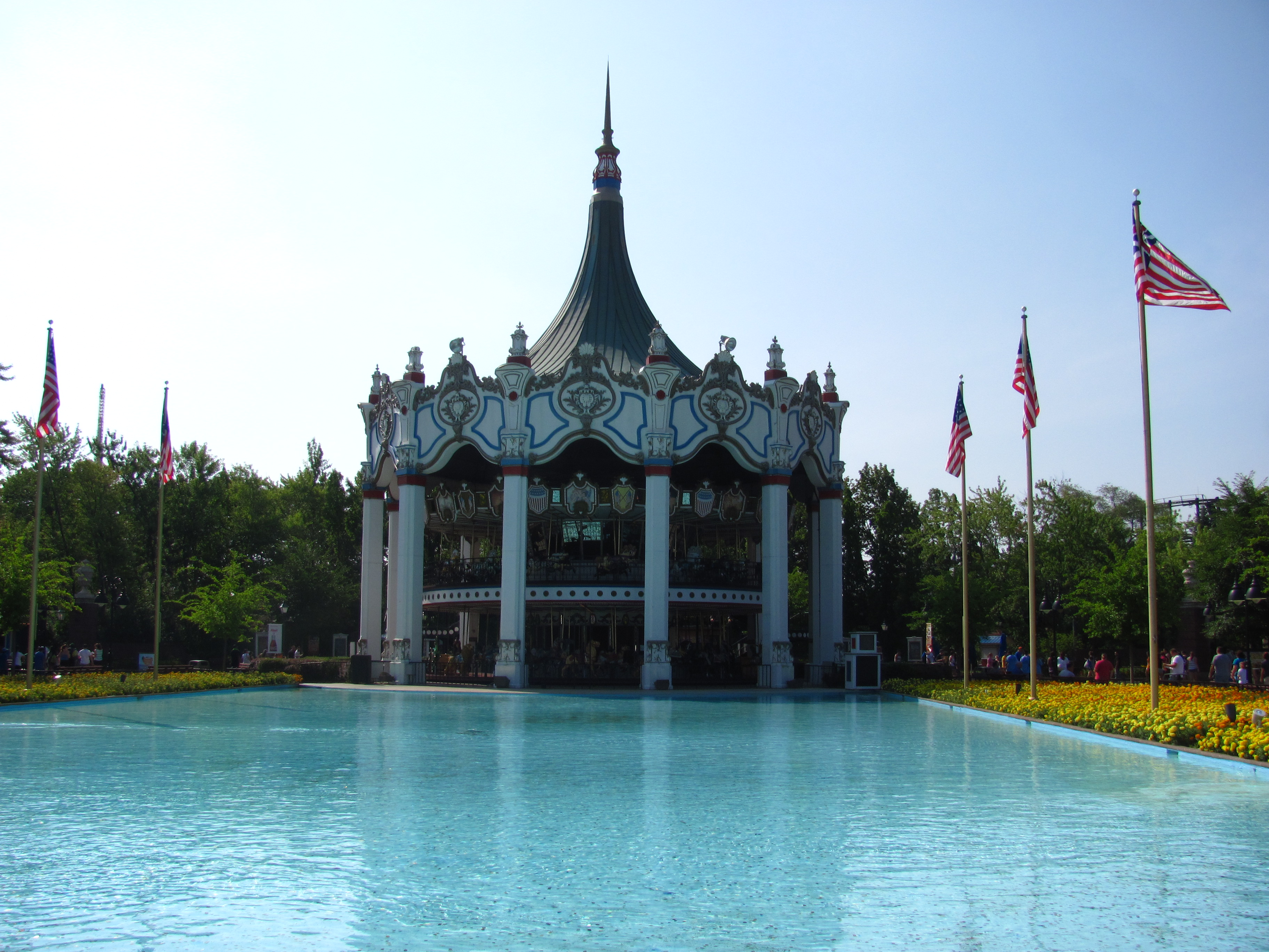 Columbia Carousel